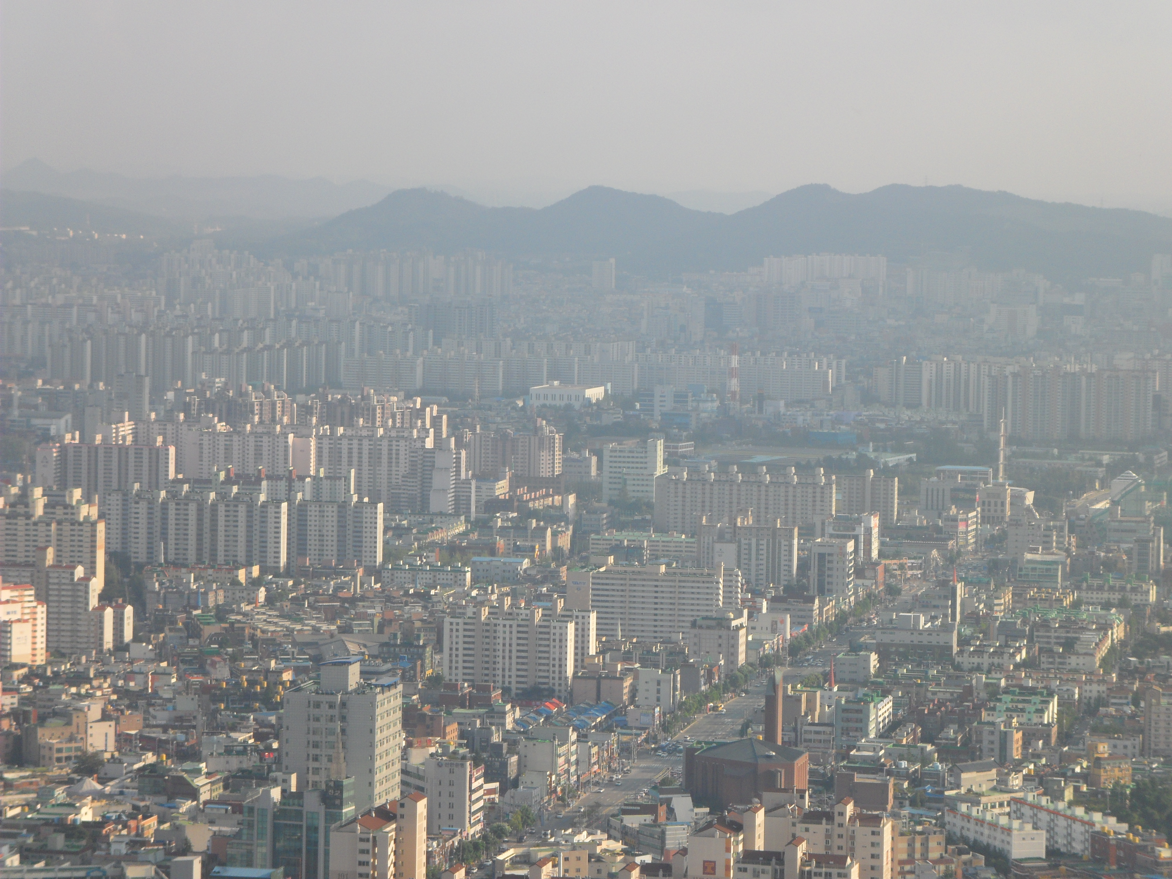 View of Incheon taken from Mount Gyeyang